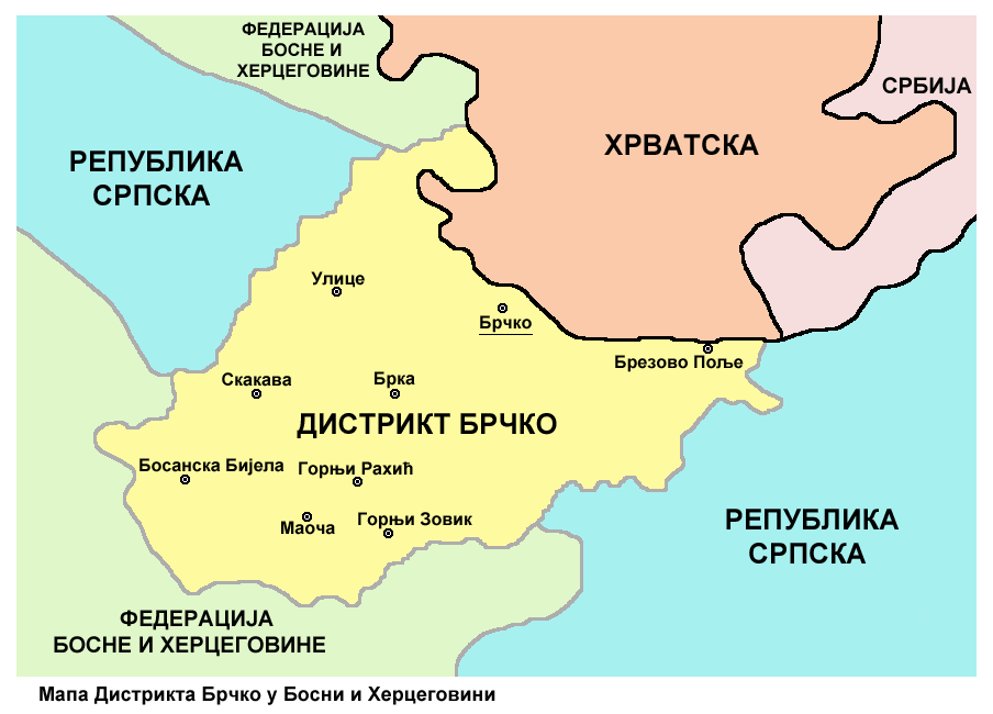 Map of Brčko District within Bosnia and Herzegovina.